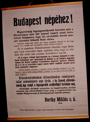 Photo taken by the Uploader.